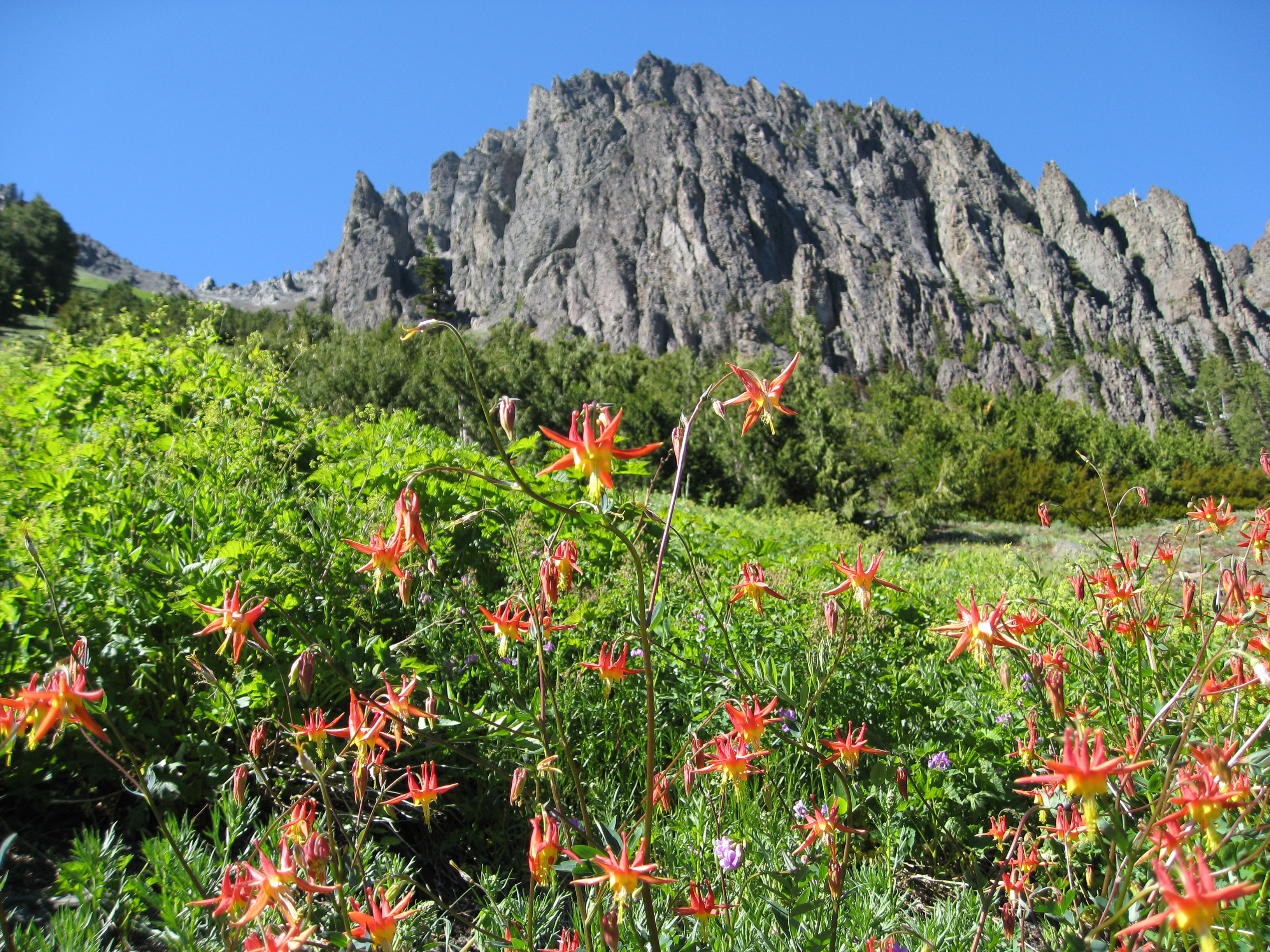 THere was a profusion of red columbine on the trail - I have never seen as many. Aquilegia formosa Aquilegia formosa red columbine, western columbine, Sitka columbine Kingdom: Plantae Division: Magnoliophyta Class: Magnoliopsida Order: Ranunculales Family: Ranunculaceae Genus: Aquilegia i071308 786